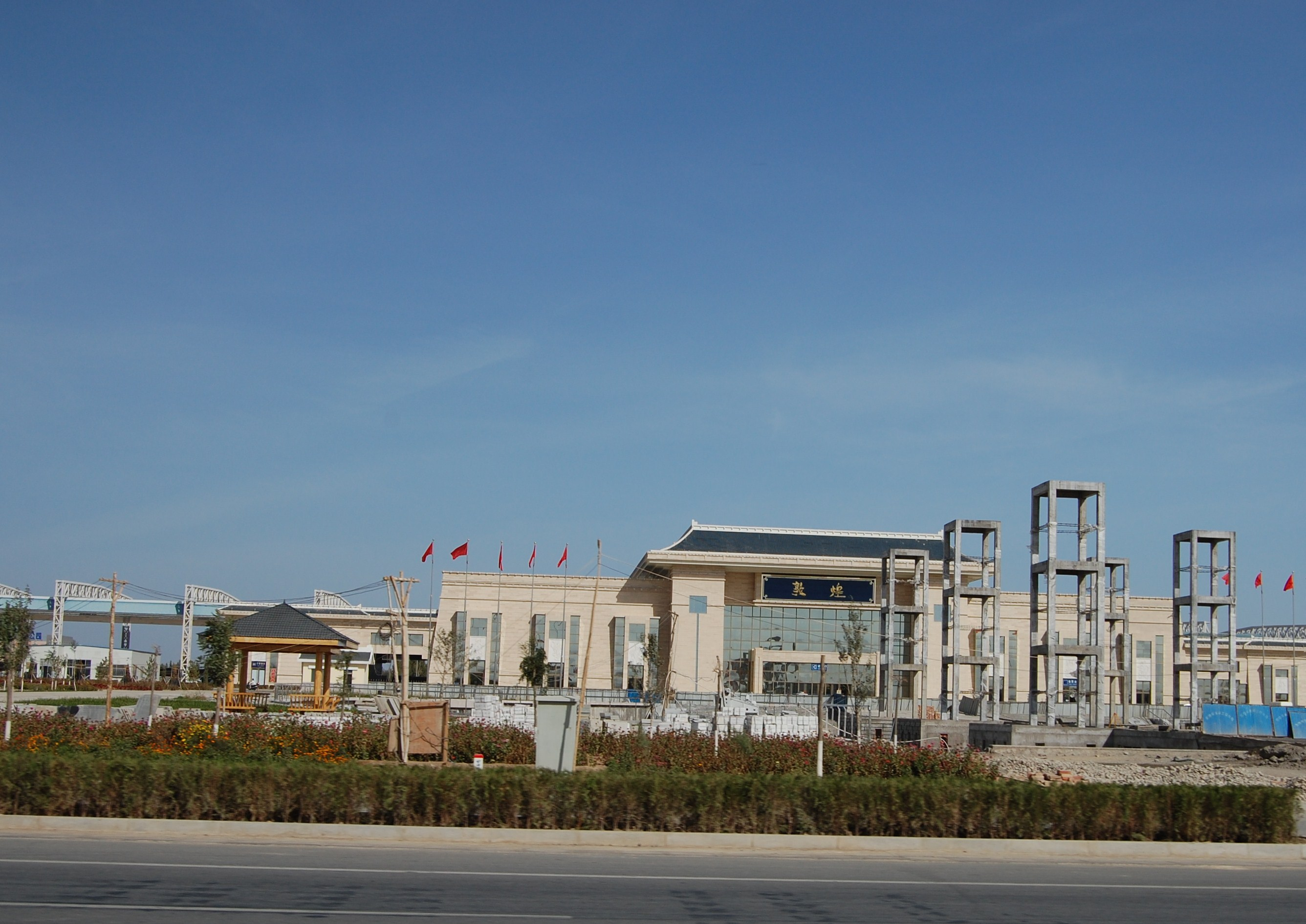 Train Station in Dunhuang, Gansu Province, China